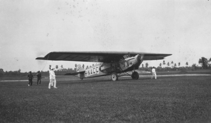 Arrival at the horse race track in Medan of the first commercial flight from Holland to Batavia